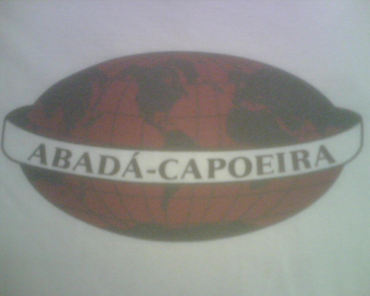 ABADA-Capoeira globe symbol 1